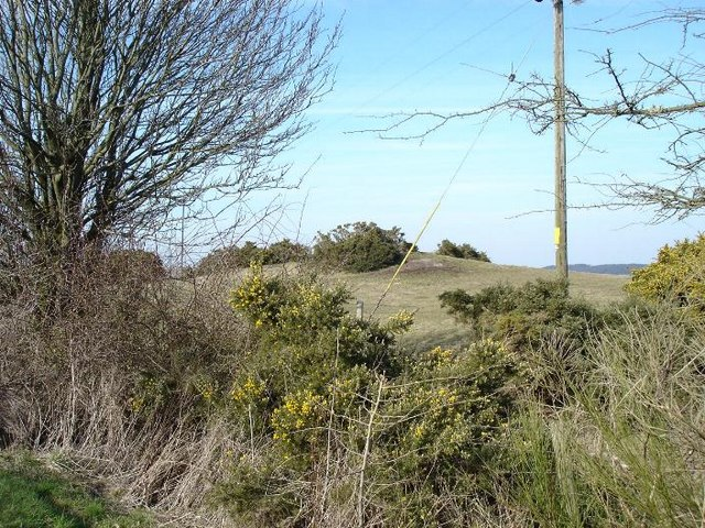 Bodlondeb. Farmland near Bodlondeb